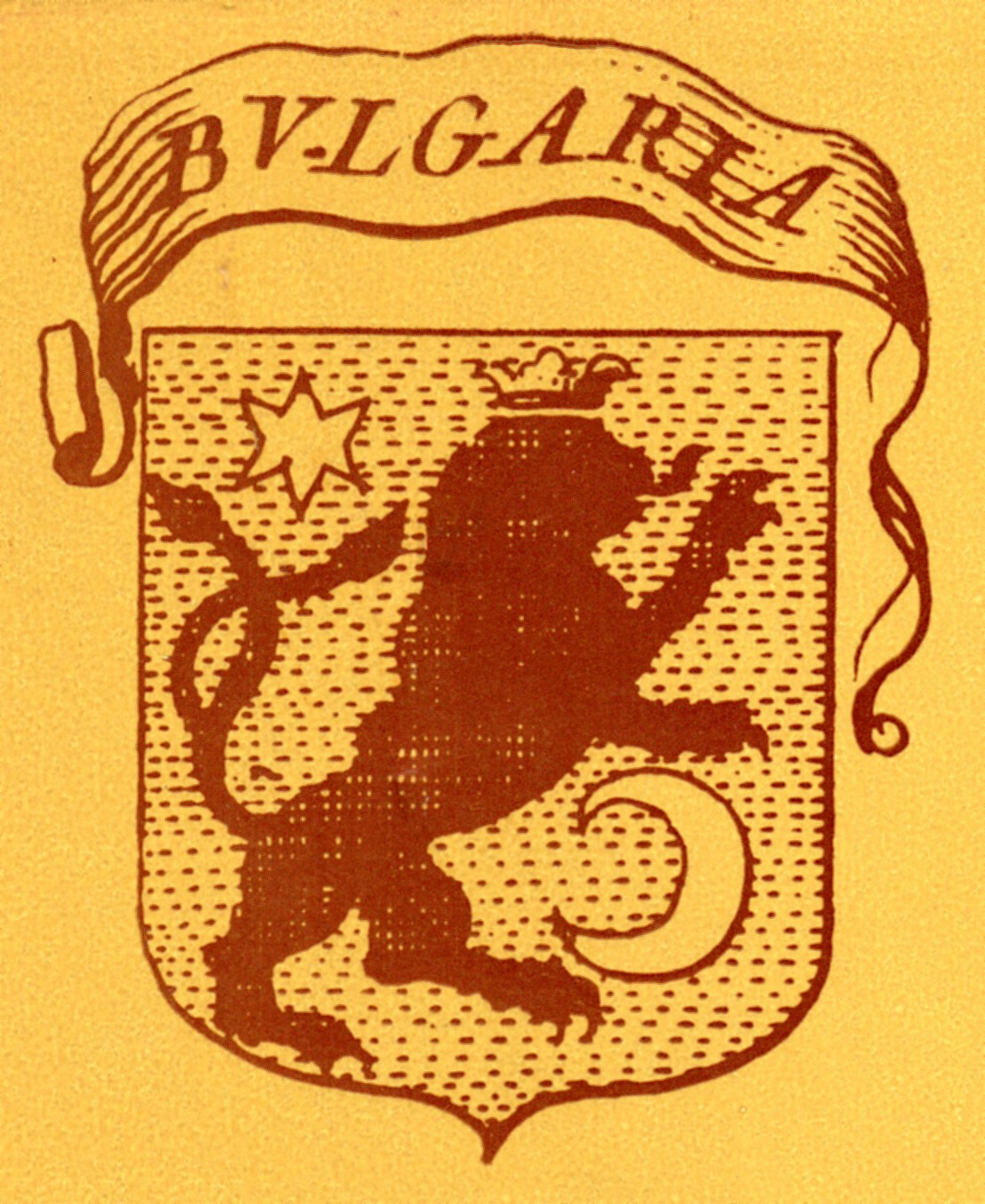 Coat of Arms of Bulgaria from a map printed in Venice in 1692, according to Ivan Voinikov, "History of the Bulgarian State Symbols", 2005, Part I Bulgarian Coat of Arms, section III Bulgarian Coat of Arms in the period 15th century - 1878, chapter 2 Bulgarian Coat of Arms in the Illyrian Rolls of Arms (in Bulgarian).